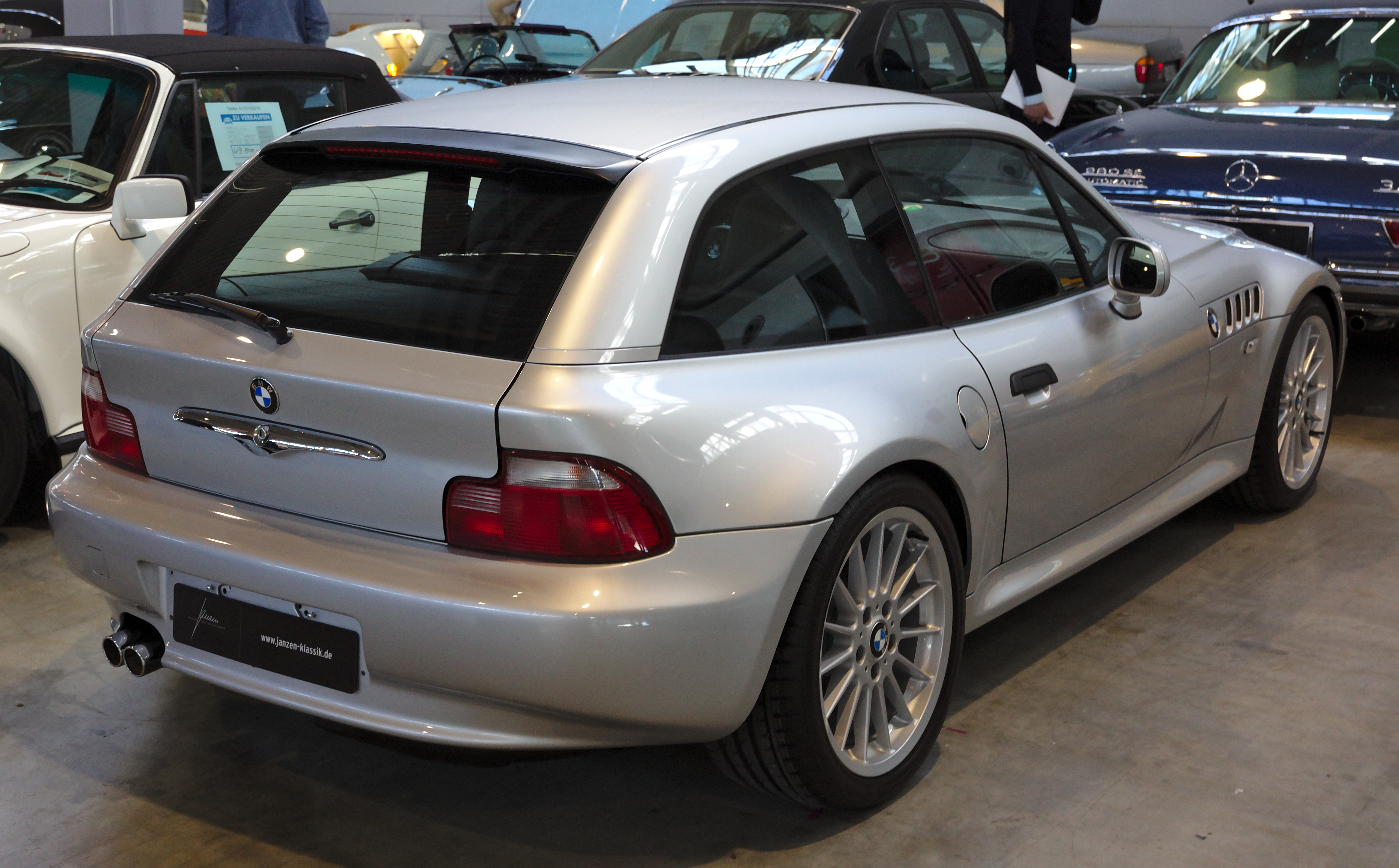 BMW Z3 Coupe at Retro Classics 2019